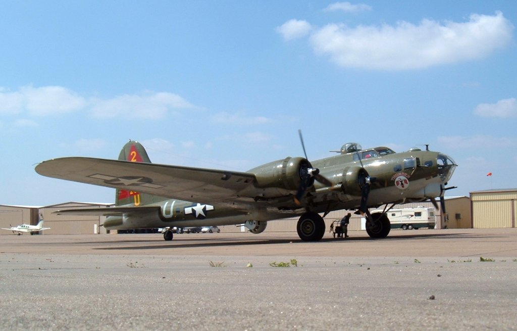 The Lone Star Flight Museum's Boeing B-17 Flying Fortress Thunderbird during engine runup. Photographed by Willy Logan, March, 2006.